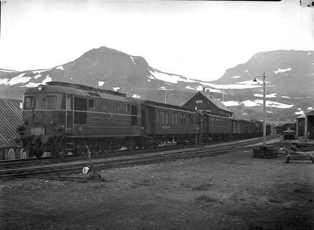 Norwegian State Railways Di 1 locomotive hauling a passenger train at Finse Station on the Bergen Line